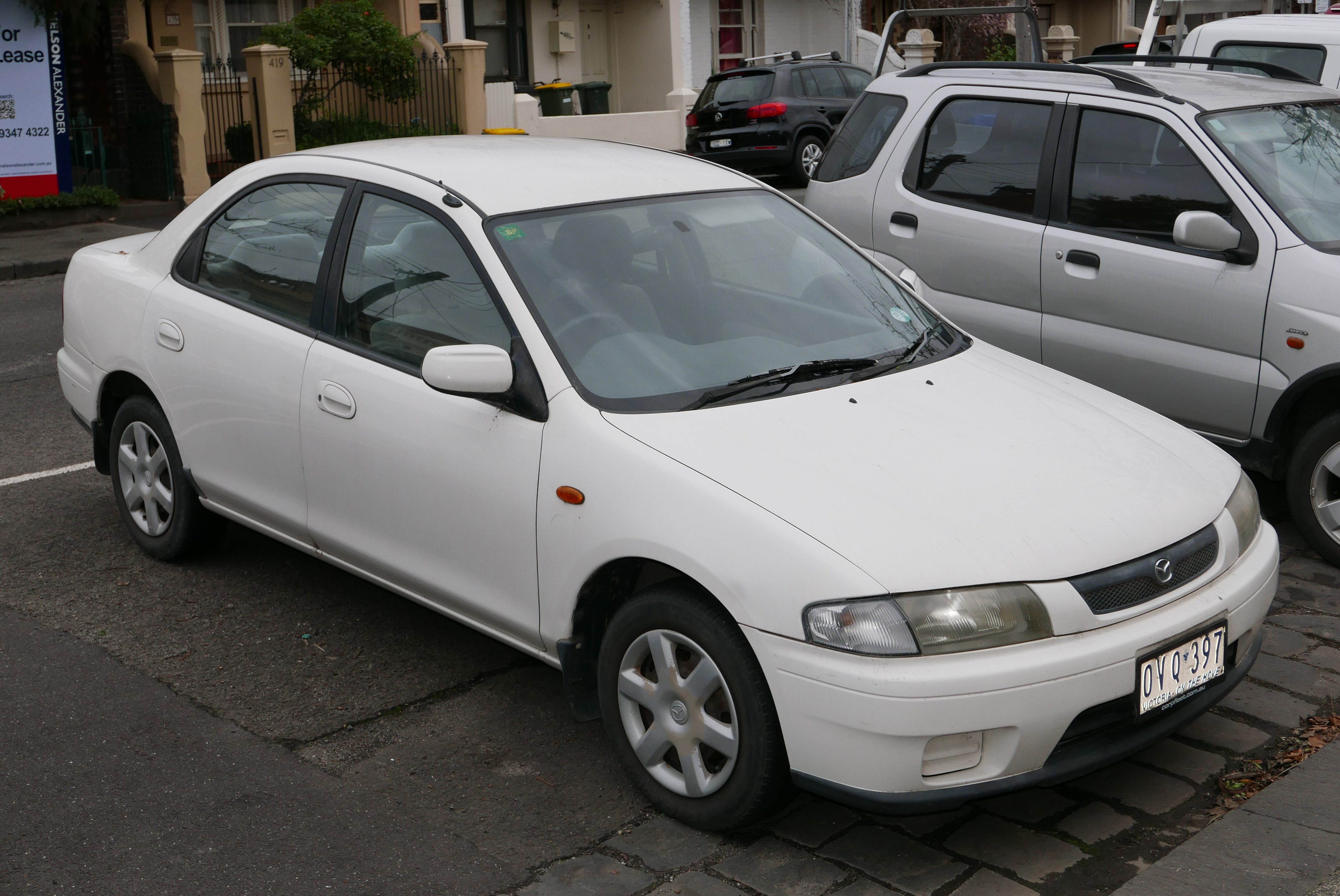 1998 Mazda 323 (BA Series 3) Protegé 1.8 sedan. Photographed in Carlton North, Victoria, Australia. Vehicle registration enquiry results Jurisdiction Victoria Registration OVQ397 Chassis code JM0BA11P300228711 Engine code BP317736 Compliance date 1998-02 Year of manufacture 1998